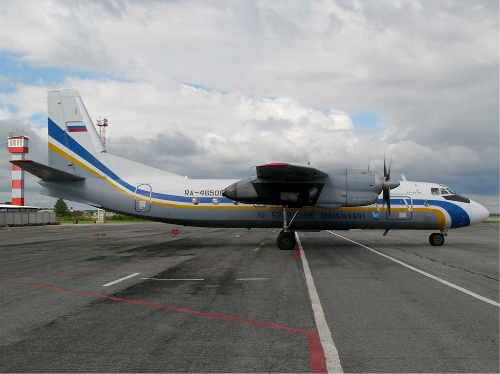 Buryat Airlines Antonov An-24RV Osokin.jpg